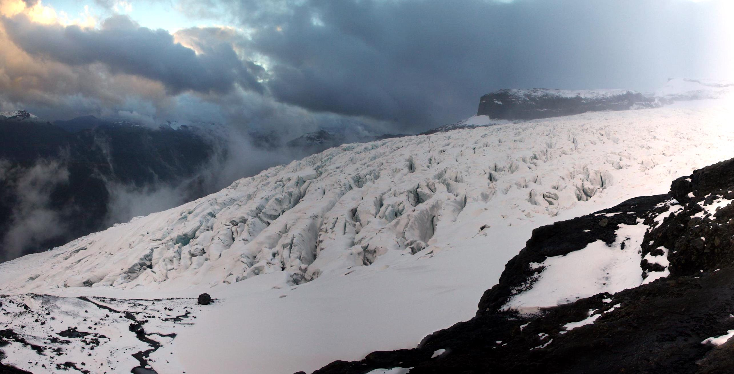 View of Glacier Castaño Overo from same level, after recent snowfall.